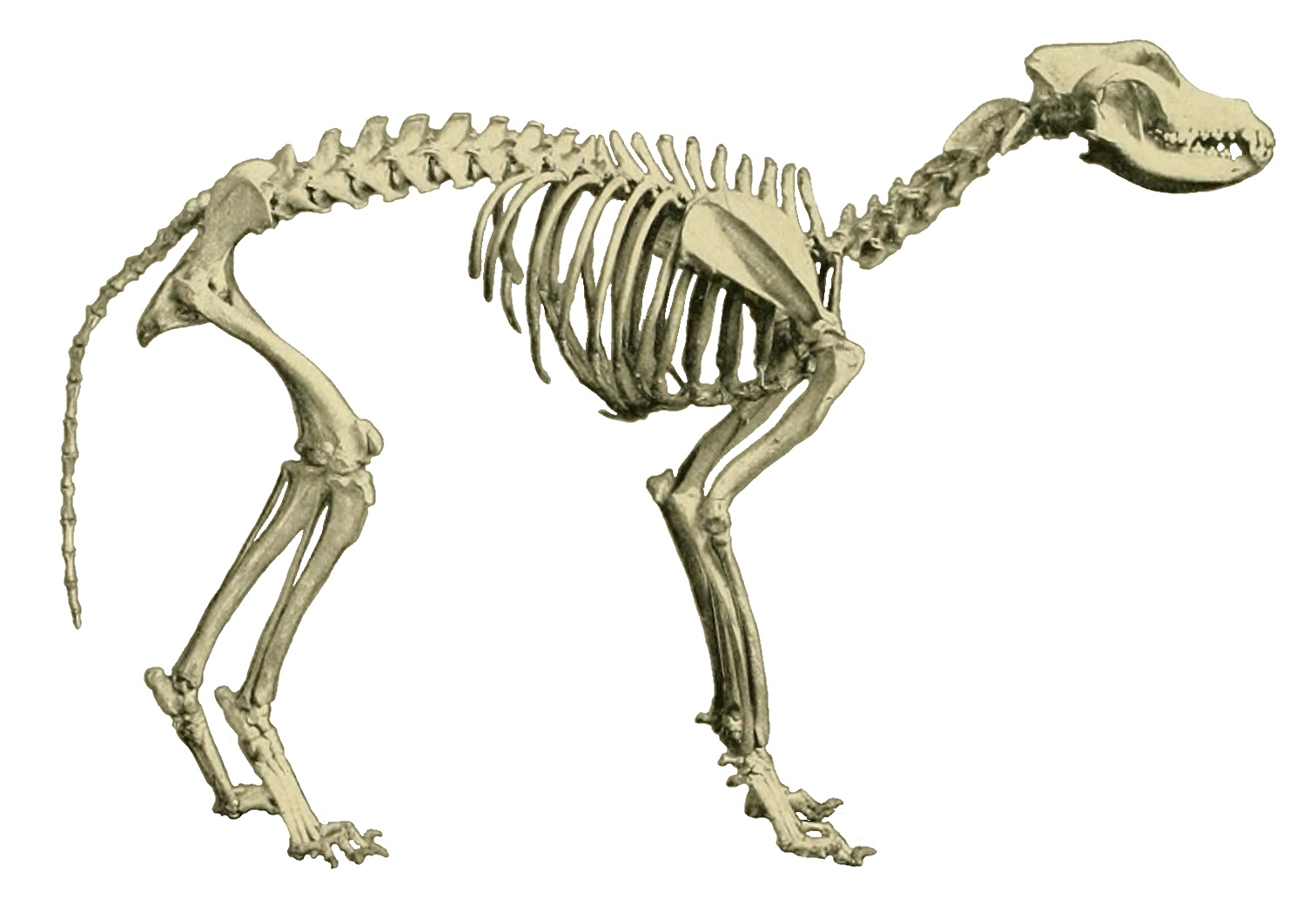 Skeleton of a retriever